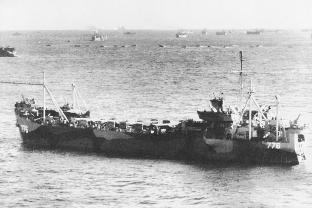 USS LST-776 with Brodie system off Iwo Jima, 1945